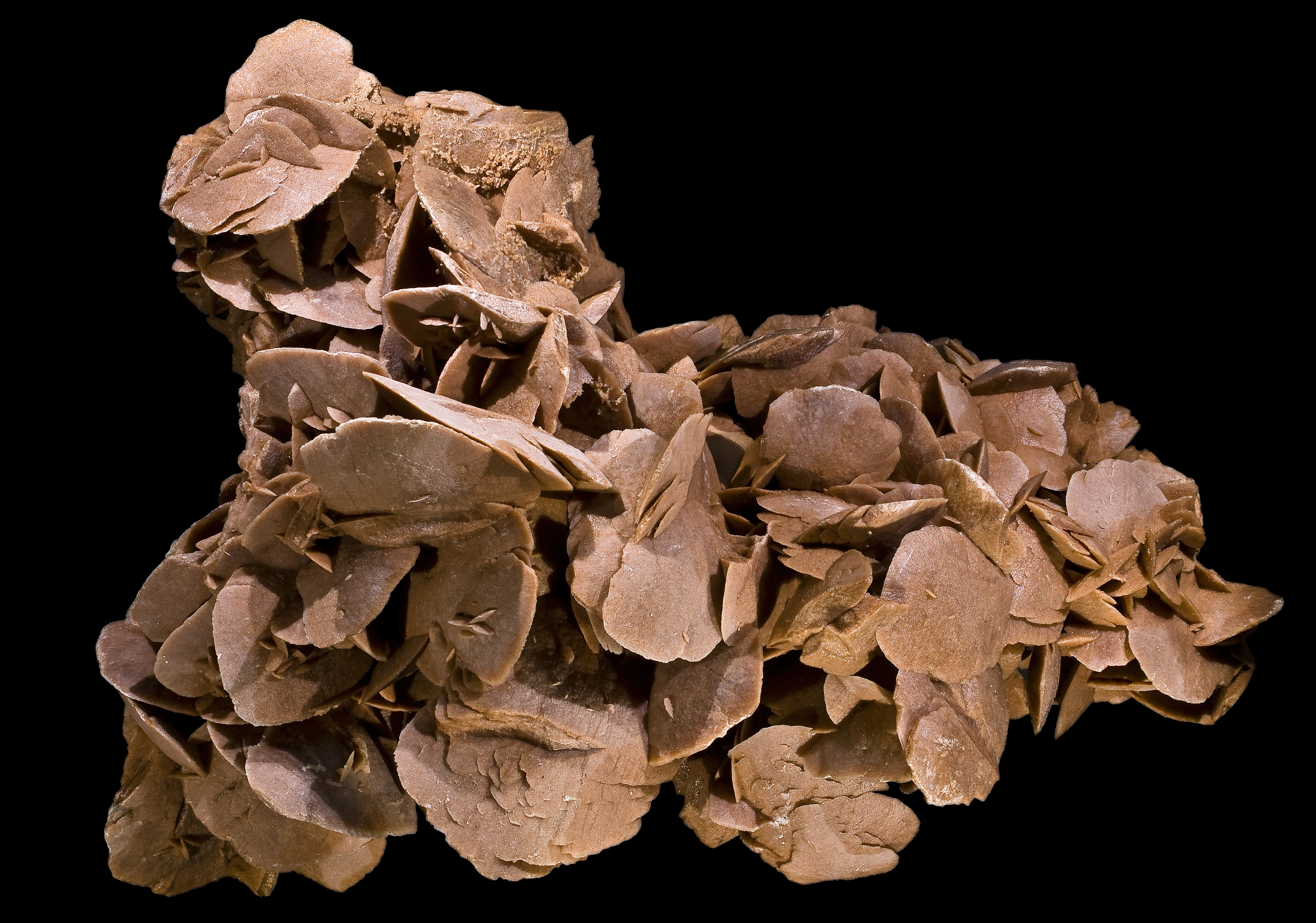 Desert roses (Gypsum) Locality : Southern Tunisia Size : 47 × 33 cm.